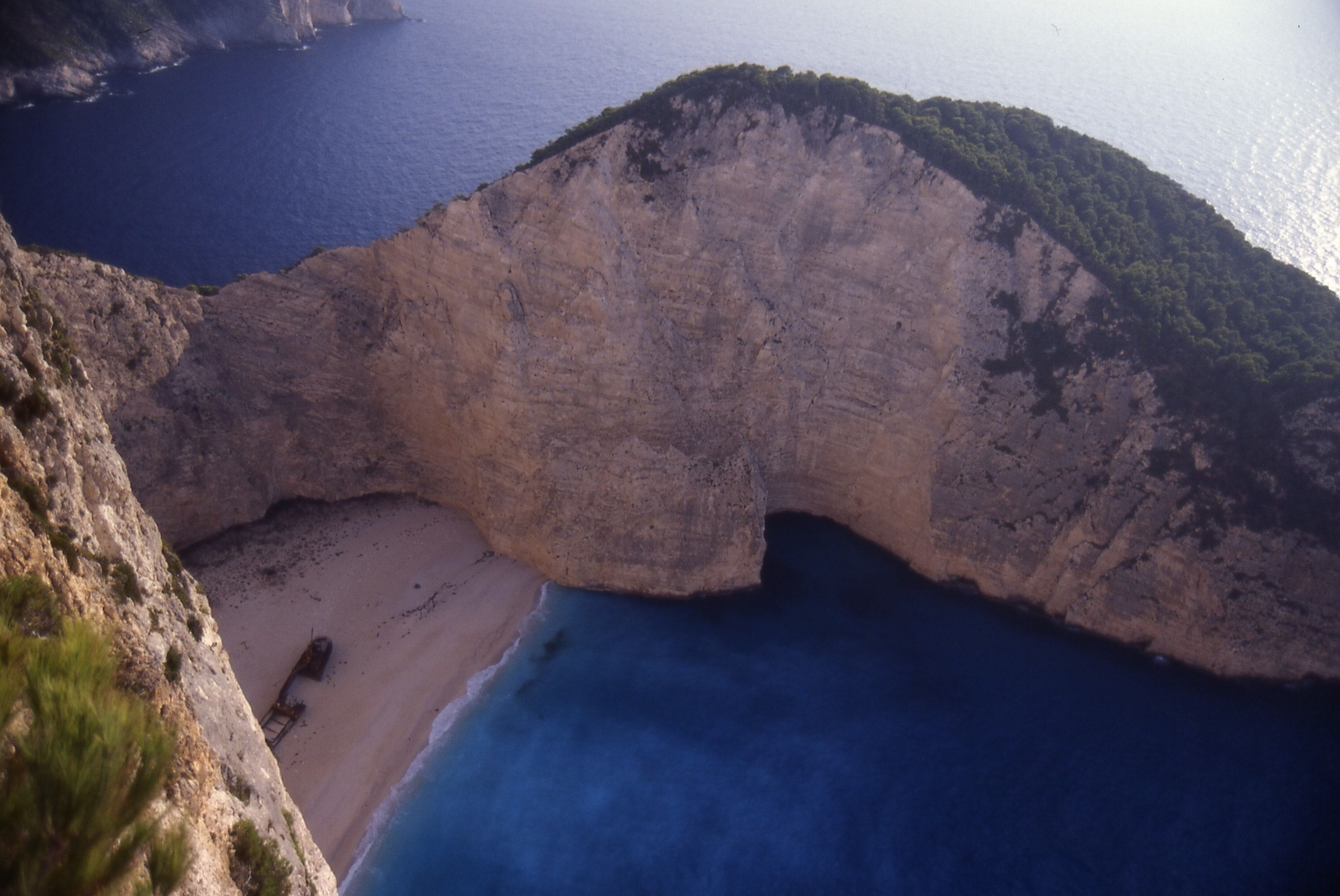 Shipwreck beach on Zakynthos Island